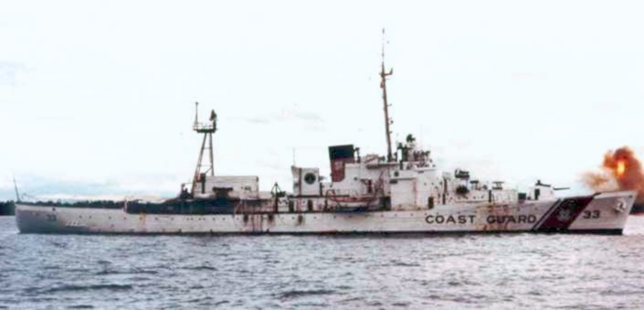 The U.S. Coast Guard cutter USCGC Duane (WHEC-33) shelling targets in Vietnam. Her main battery fired in support of forces ashore in Vietnam 17 different times, firing a total of 1,778 rounds of ammunition. Naval Gunfire Support (NGFS) was one of the primary missions assigned to the cutters of Coast Guard Squadron Three.